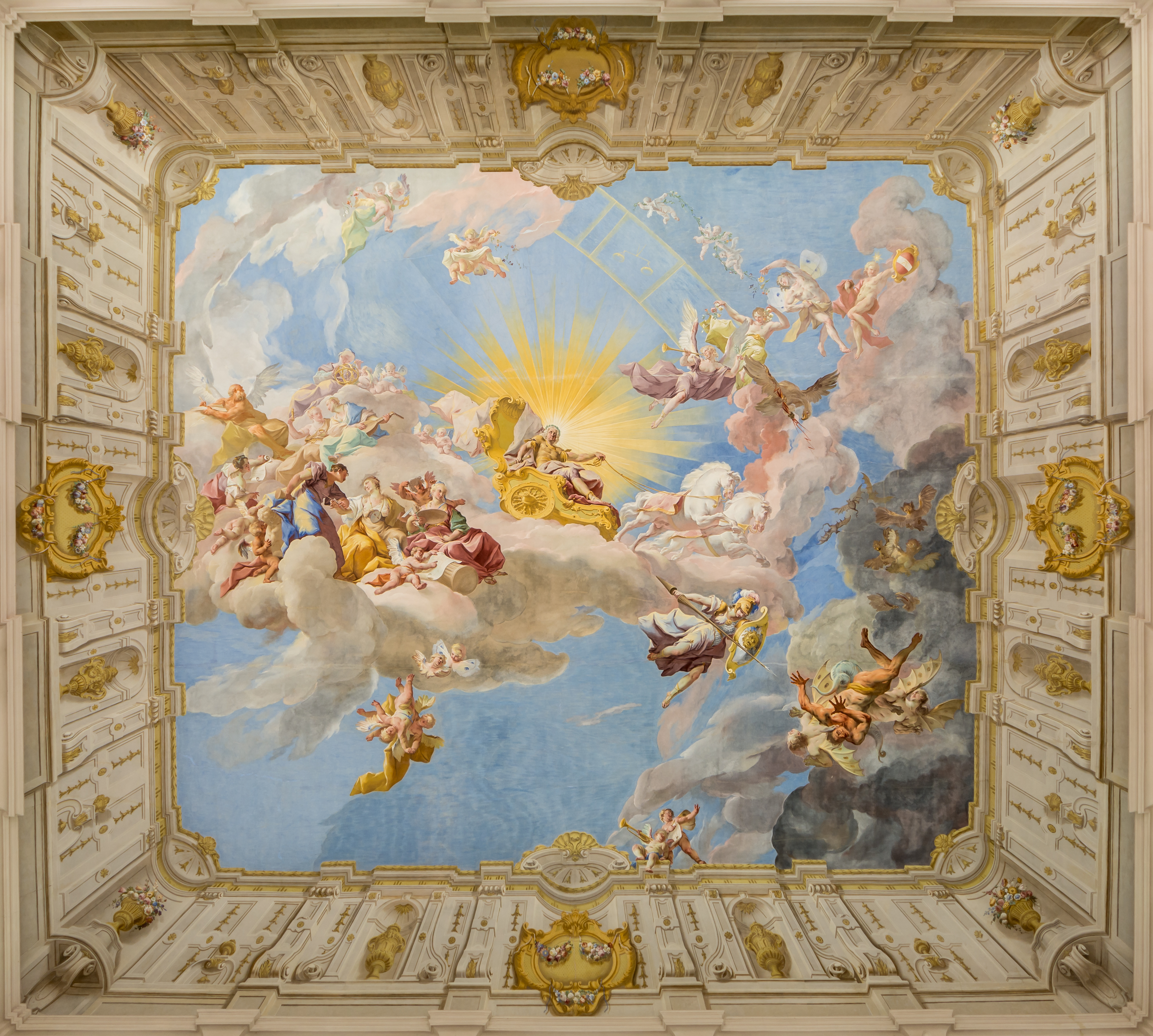 Ceiling fresco.